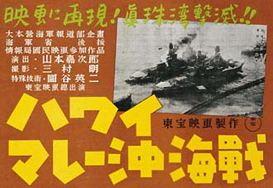 Movie poster for 1942 Japanese movie (ハワイ・マレー沖海戦 Hawai Mare oki kaisen), literally: The War at Sea from Hawaii to Malaya.